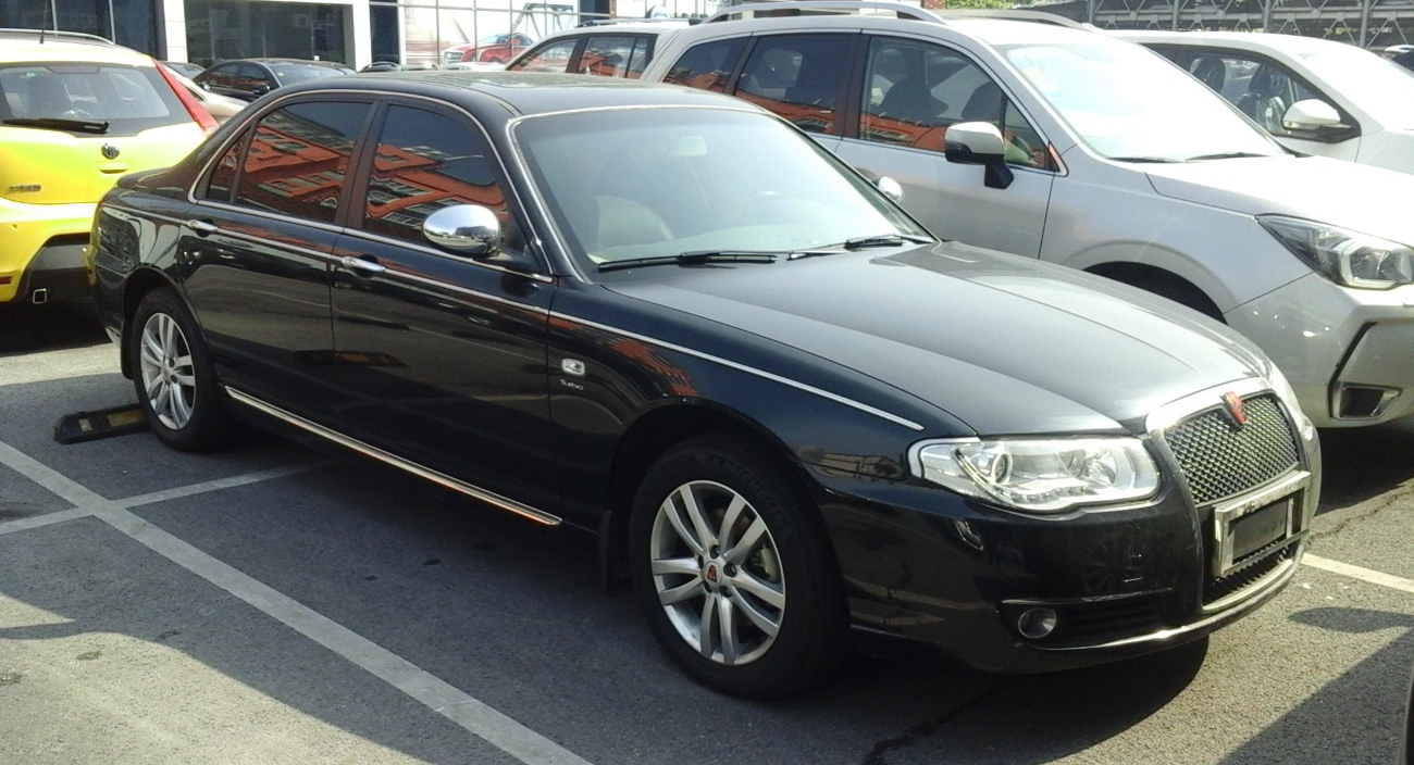 Roewe 750 facelift photographed in Shanghai, China.